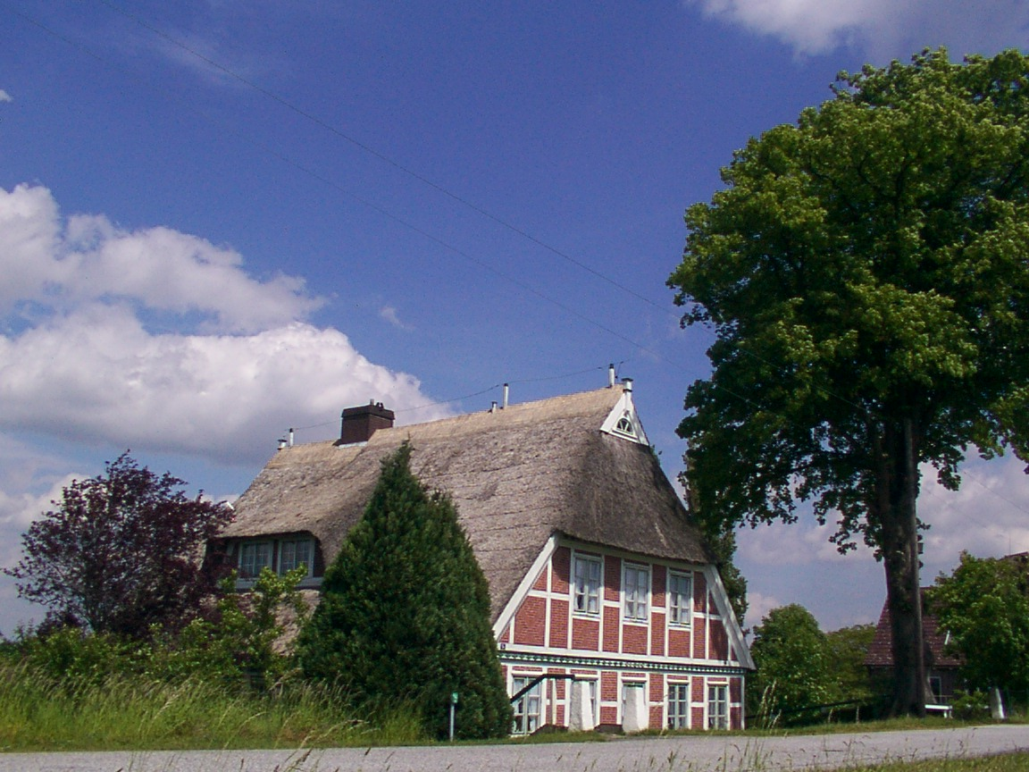 Traditional farmer house at Hamburg-Altengamme, Germany